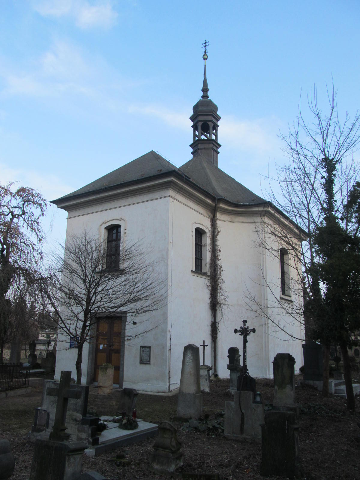 Church of the Holy Trinity and Fourteen Holy Helpers in Louny